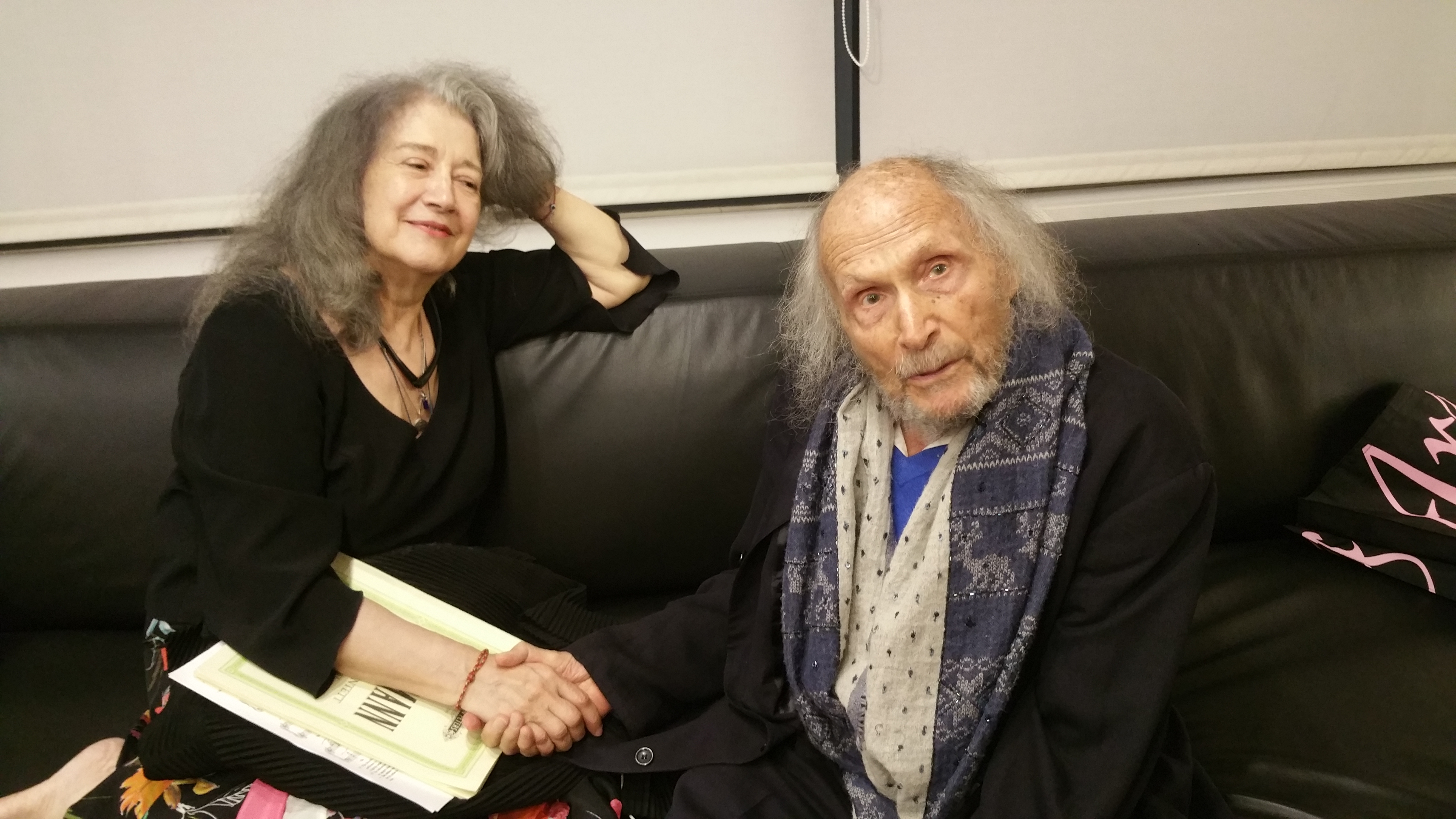 Pianist Martha Argetich & violinist Ivry Gitlis, after a chamber concert, 11/10/18, opening of the season concert at the Israel Philharmonic Orchestra 2018-2019, Tel Aviv, Israel.